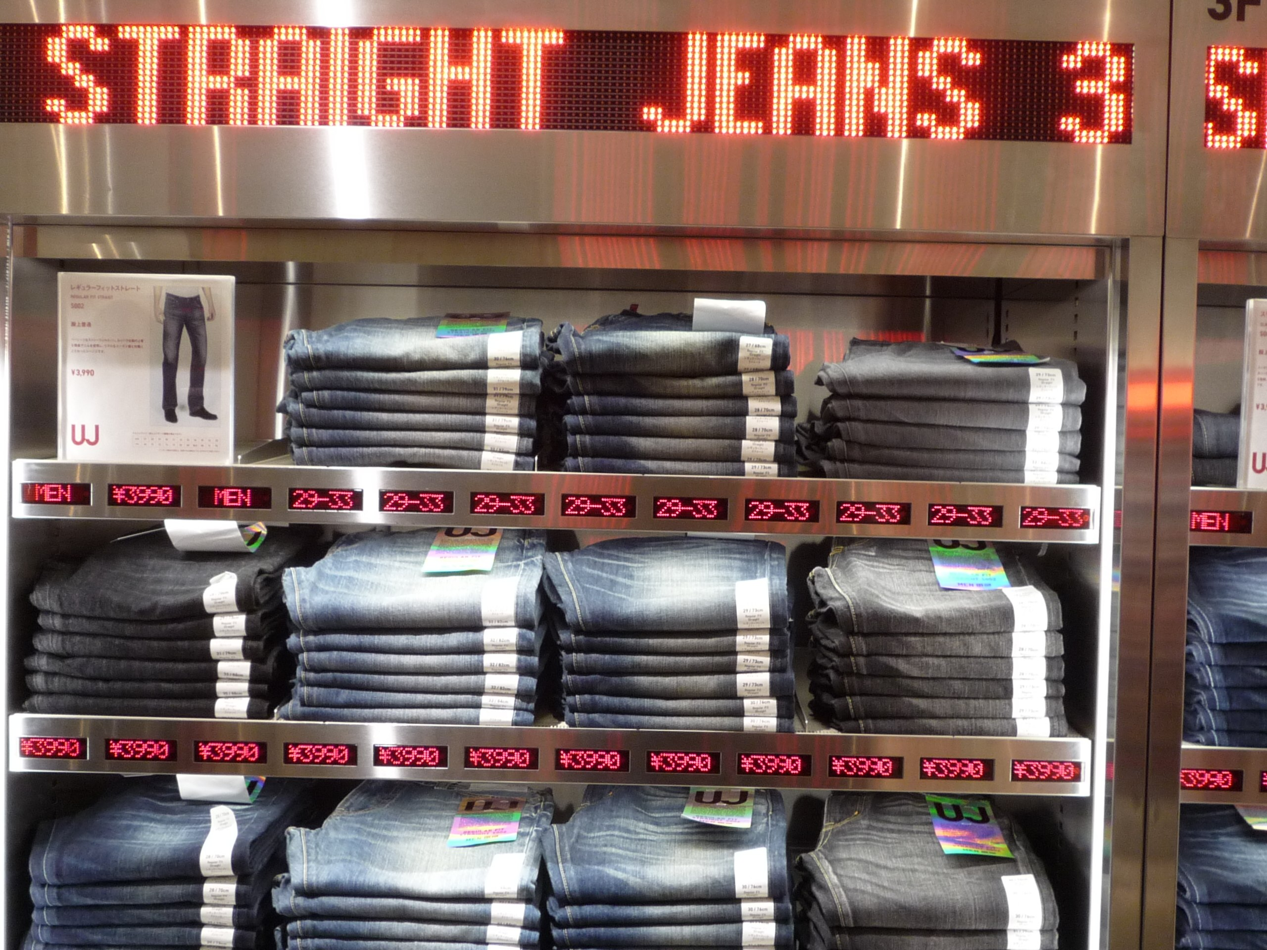 Uniqlo jeans at their Tokyo store.